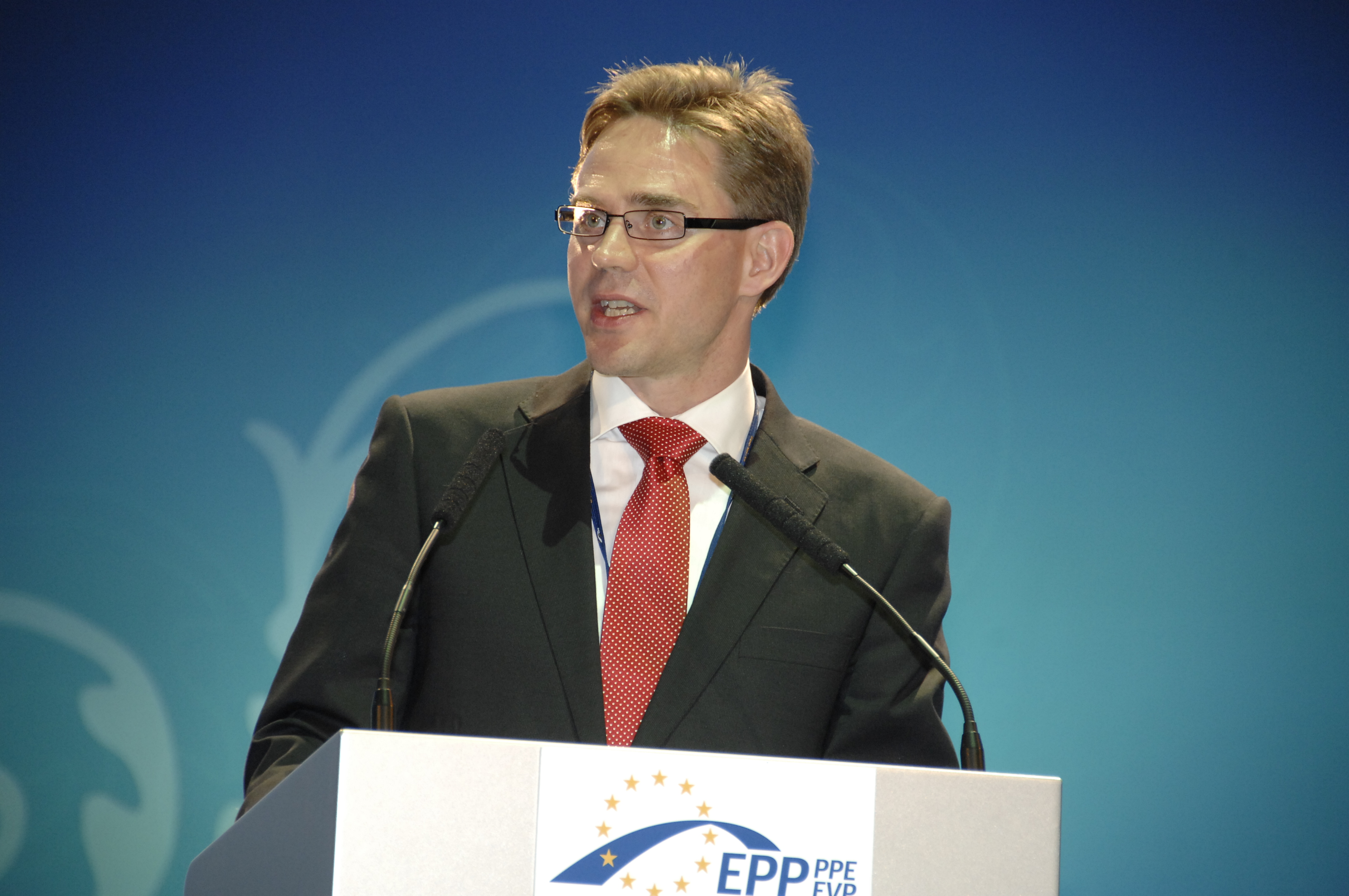 EPP Congress Warsaw